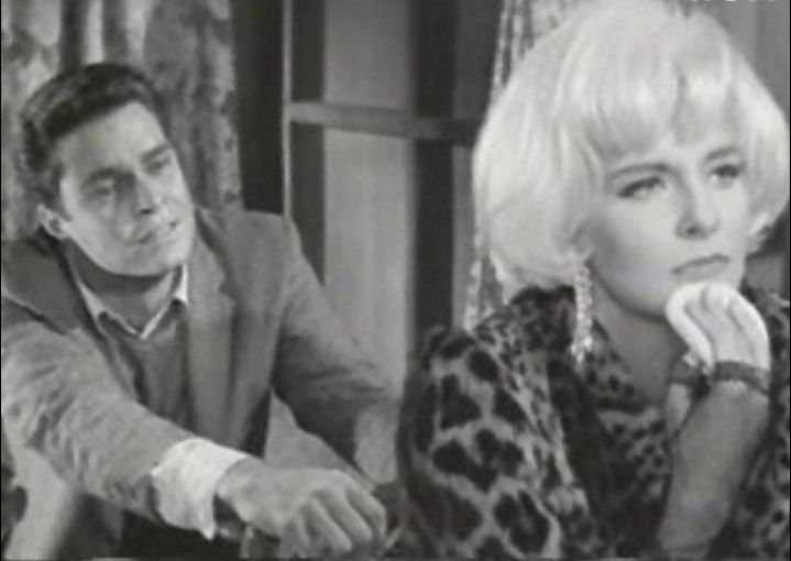 Screenshot of Richard Beymer and Joanne Woodward from the trailer for the film The Stripper